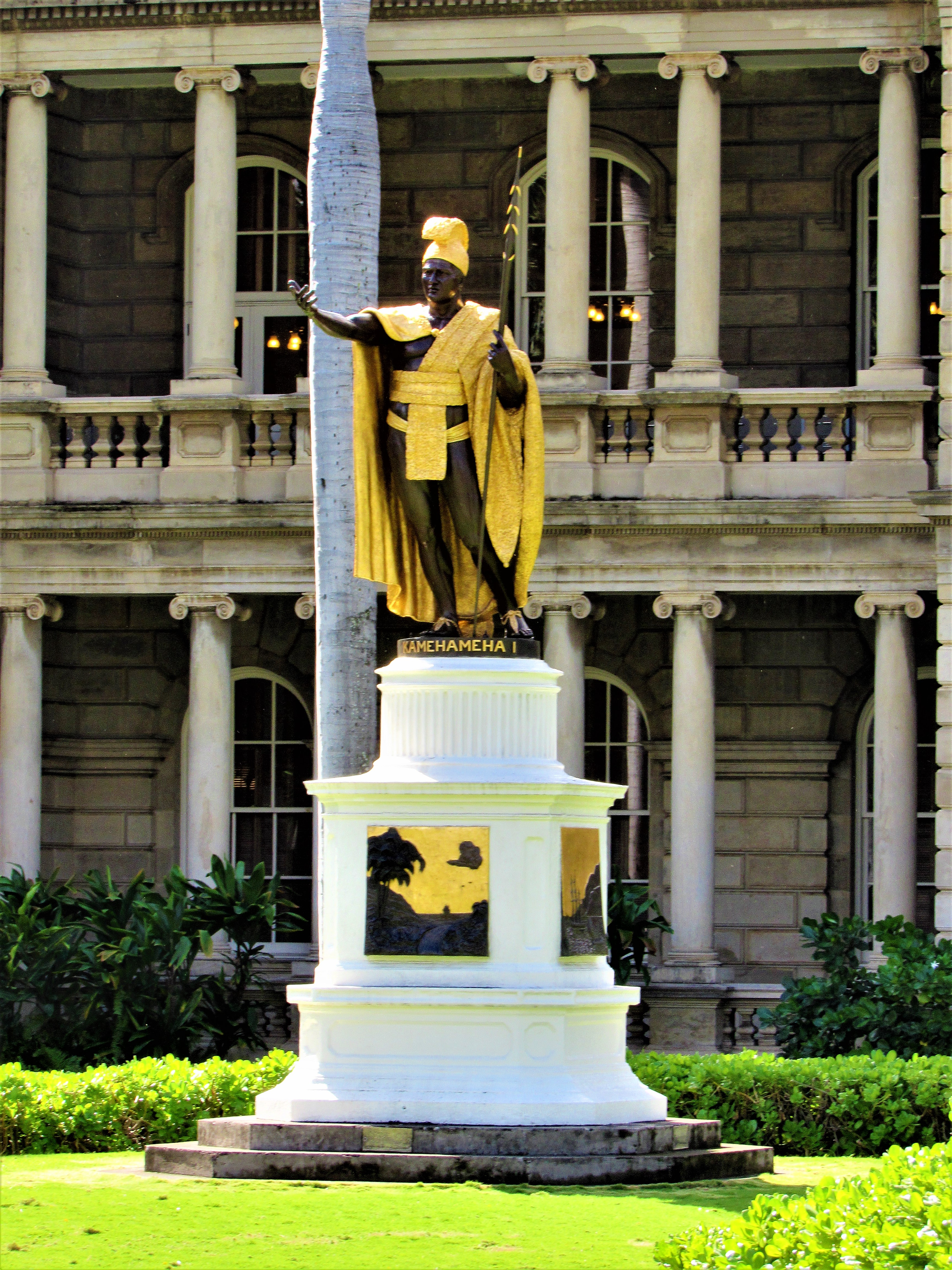 The statue of Kamehameha I in front of Aliʻiōlani Hale, Honolulu.